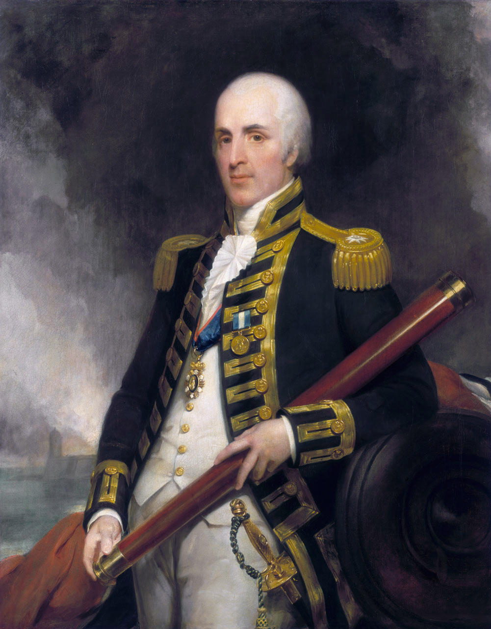 Rear-Admiral Alexander John Ball (1757-1809) oil on canvas 127 x 101.6 cm